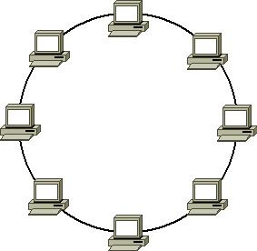 network topology